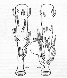 The detailed anatomy of the paraurethral ducts in the adult human female.